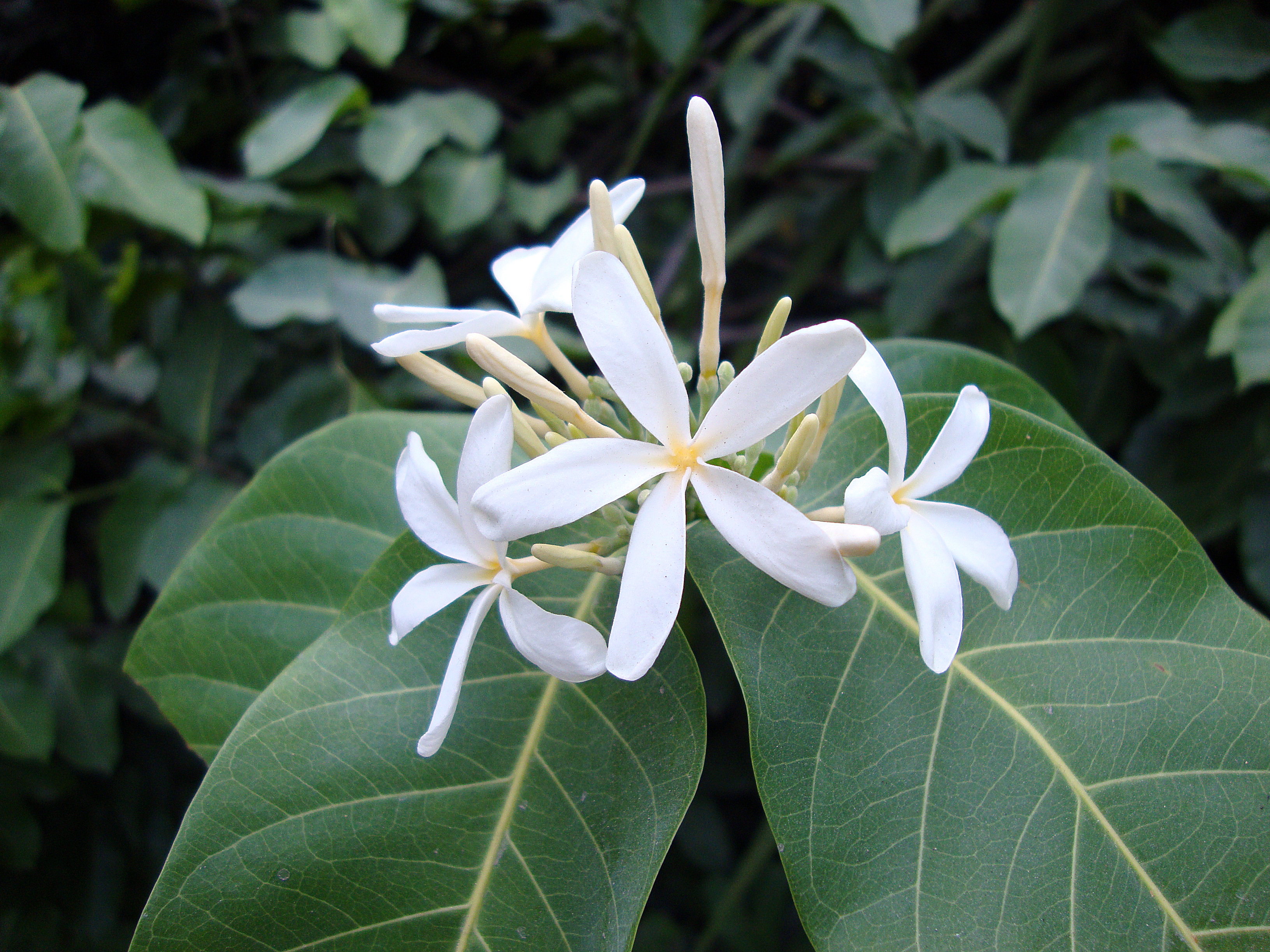 Saba comorensis (Bojer ex A.DC.) Pichon, 1953